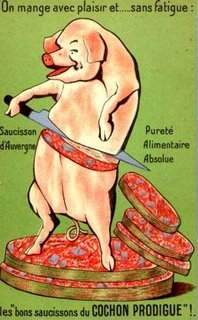 A grotesque ad for sausages, a pig butchering her body.